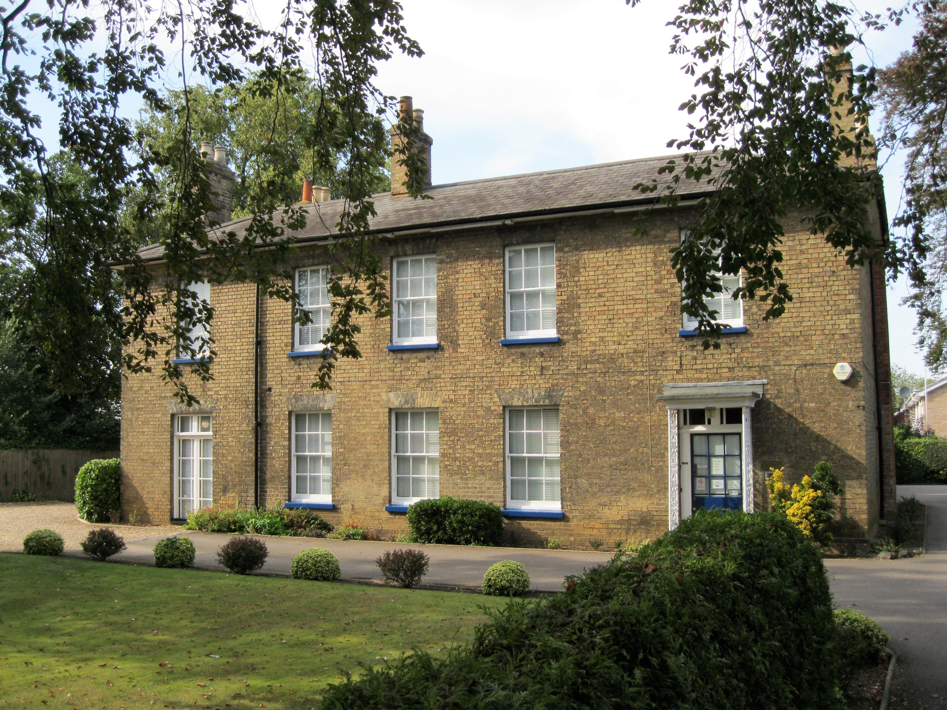 Brigham House, Biggleswade formerly the Workhouse